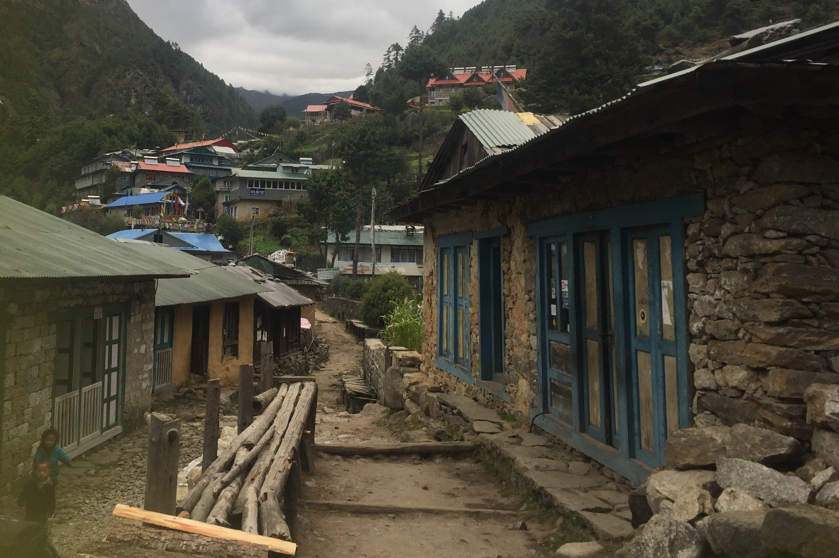 Parcial view of Monjo village, Khumbu - Nepal